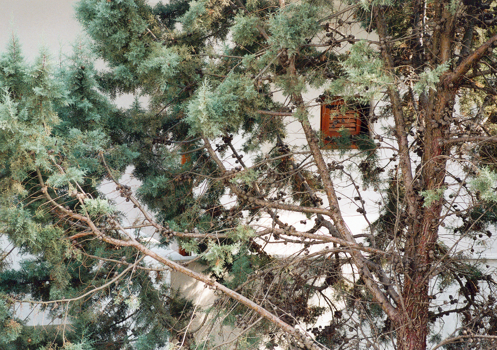 The crown of Arizona cypress with cones of different ages (Kassandra, Chalkidiki 1997)